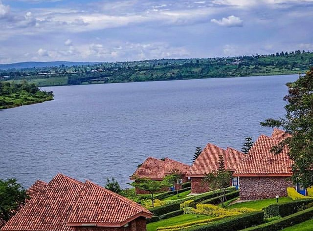 Simply Rwandaful